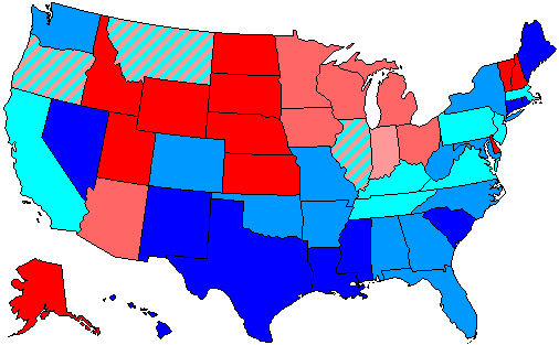 Summary of party control of U.S. house seats in the 90th United States Congress following the 1966 election. Stripes indicate a tie between two or more parties. Legend: 80.1-100% Democratic seat majority 60.1-80% Democratic seat majority 60% or less Democratic seat plurality 60% or less Republican seat plurality 60.1-80% Republican seat majority 80.1-100% Republican seat majority